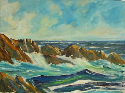 Seascape by the late Esther Rose, my grandmother. I own the painting and I took a photo of it.